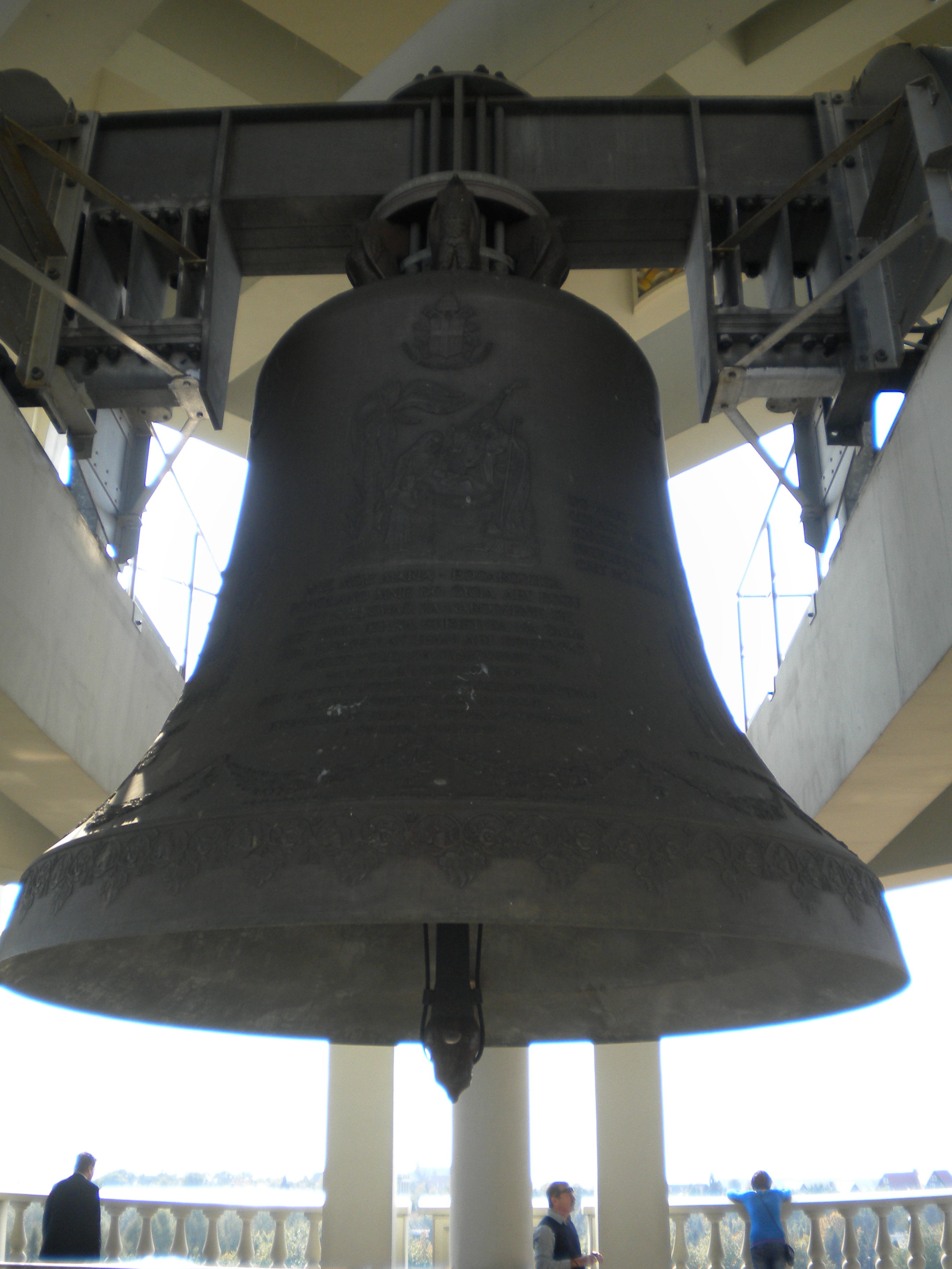 bell maryja bogurodzica